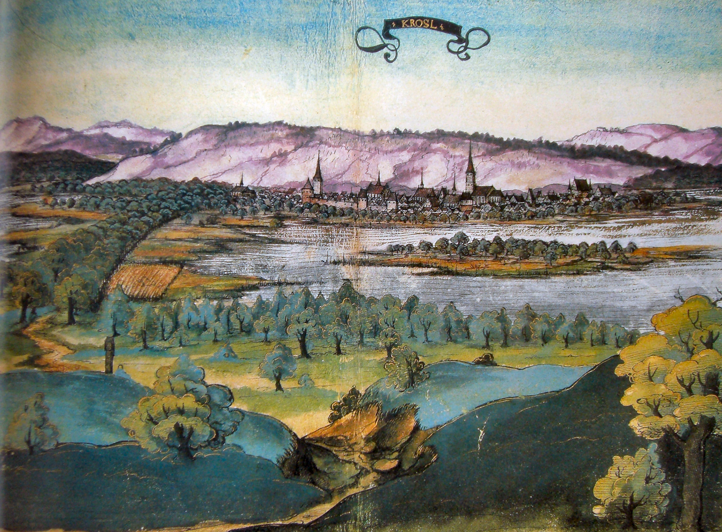 view of the town Krosl (Koźle).